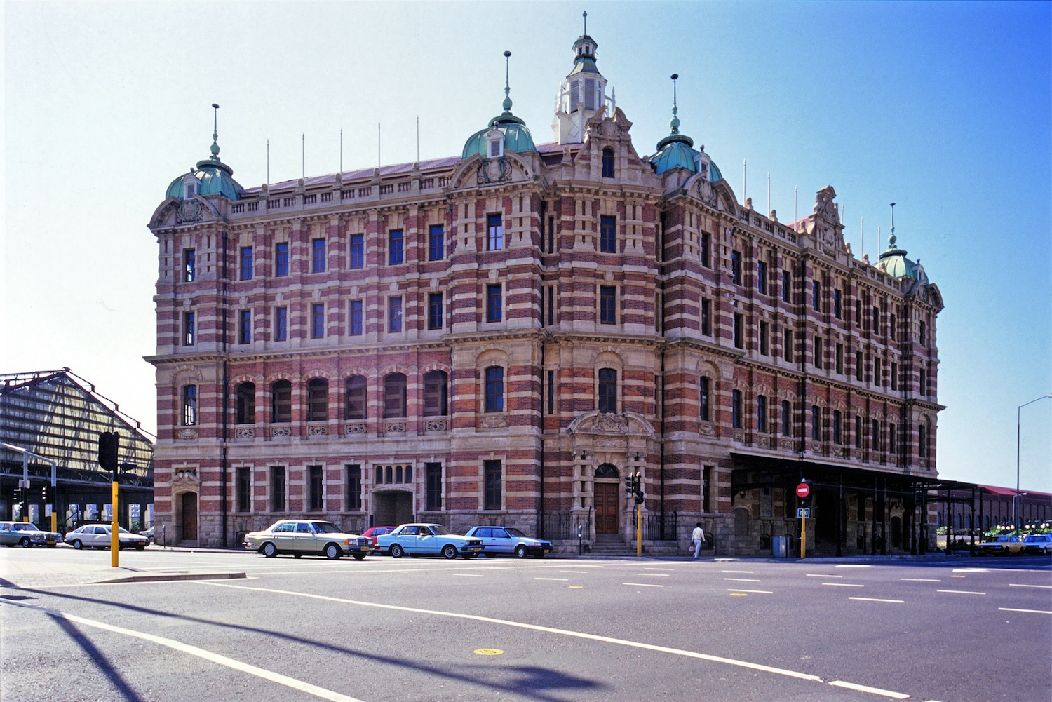 The Old Station building in Durban Central, Durban, South Africa